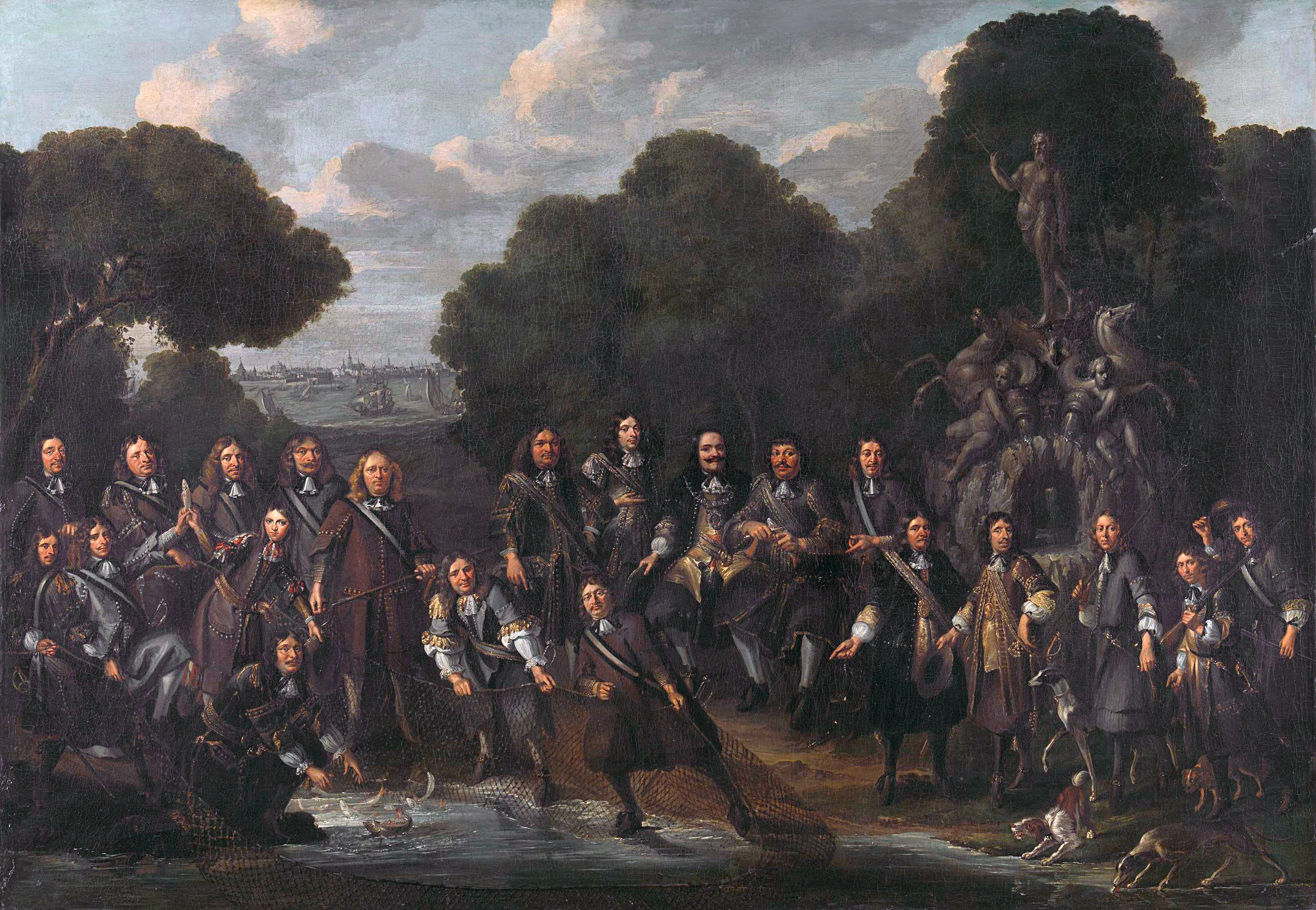 Allegory on the flourishing of the Dutch fishery after the Second Anglo-Dutch War. Contains the portraits of: David Vlugh (?), Aert van Nes (?), Tjerk Hiddes de Vries, I. Sweers, Adriaen Banckert, Engel de Ruyter, Michiel Adriaensz de Ruyter, Pieter Florisz (?), Cornelis Tromp (?), Cornelis Evertsen de Jonge, Jan Cornelisz Meppel, Aucke Stellingwerff, Egbert M. Cortenaer (?), Johan Evertsen de Oude, Pieter de Bitter en Jacob Benckers (?).